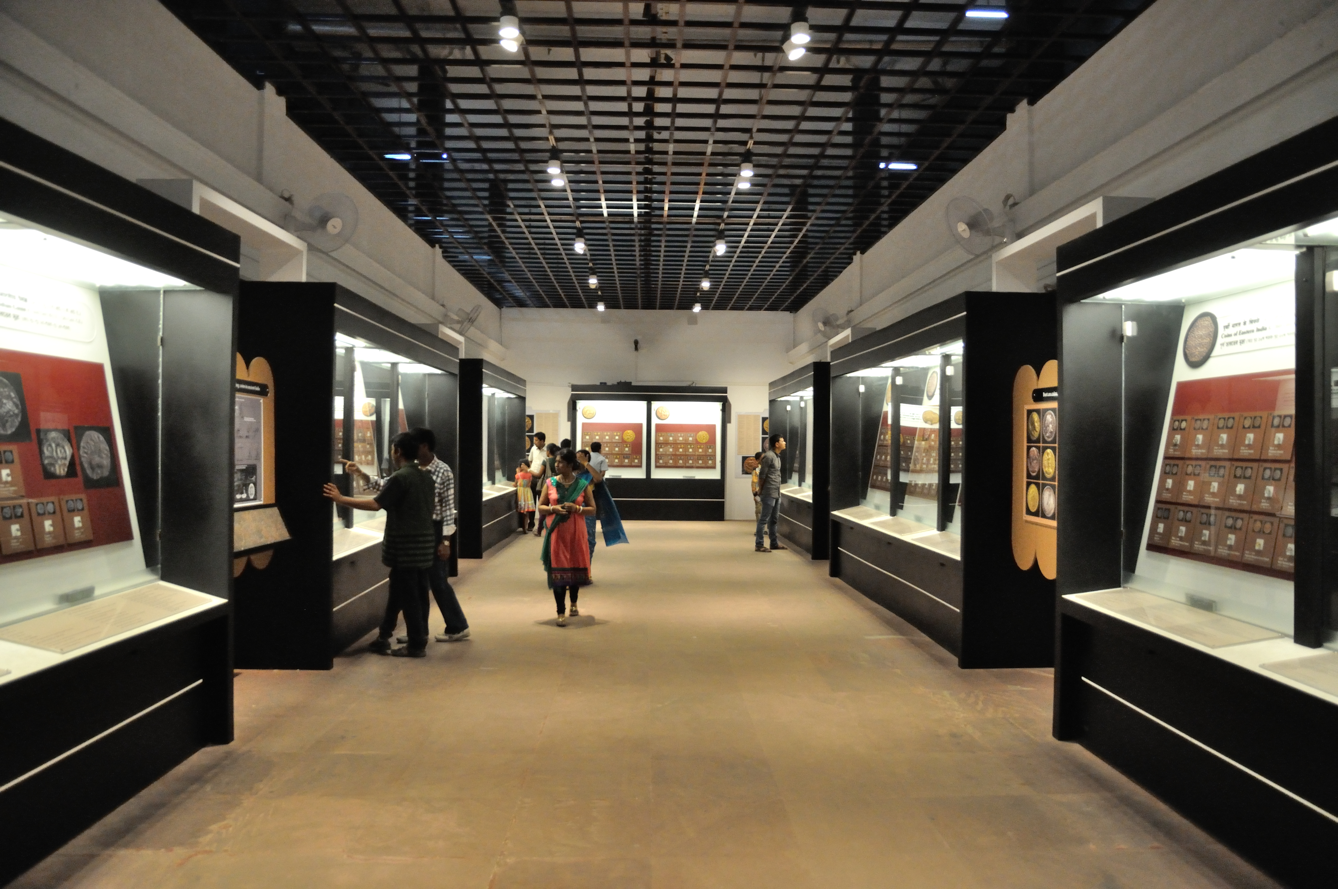 Photographed in Kolkata